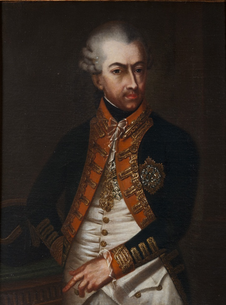 Louis Victor of Savoy, Prince of Carignani (1721-1778)